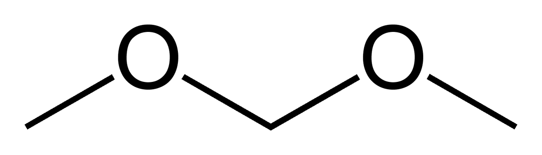 Skeletal formula of dimethoxymethane